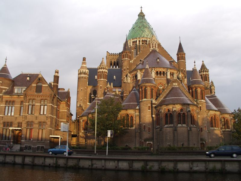 Cathedral St. Bavo, Haarlem, Netherlands